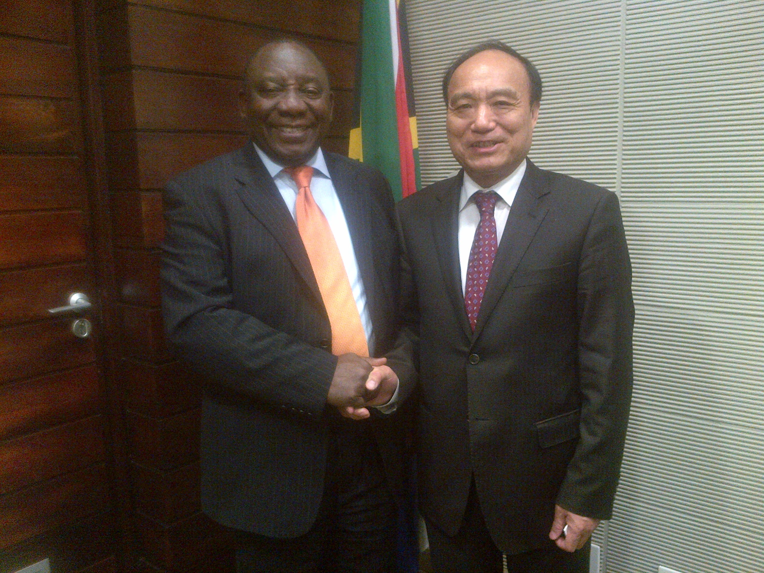 Mr Houlin Zhao with the Vice President of South Africa, H.E. Mr. Cyril Ramaphosa